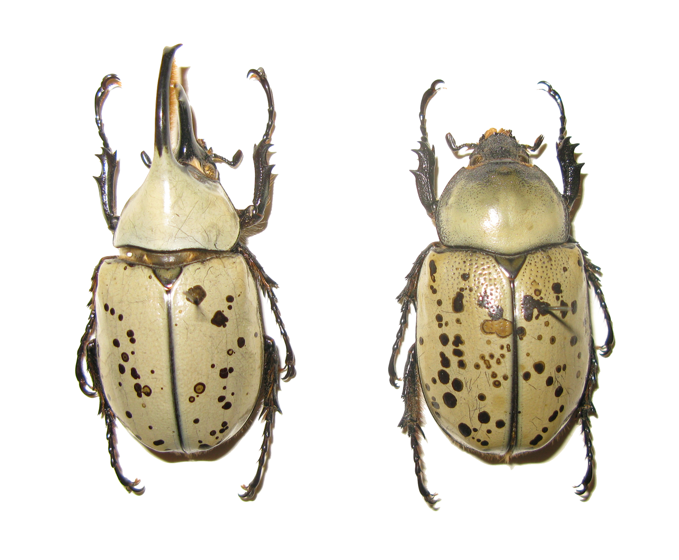 Dynastes granti. Male (left) & female